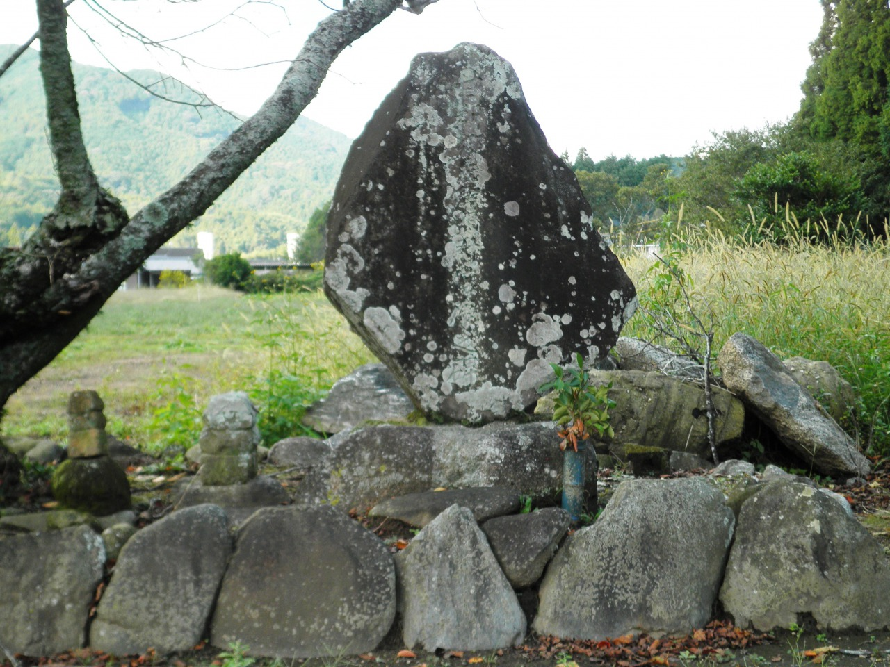 The monument of the place where Amari Nobuyasu killed in the Battle of Nagashino.